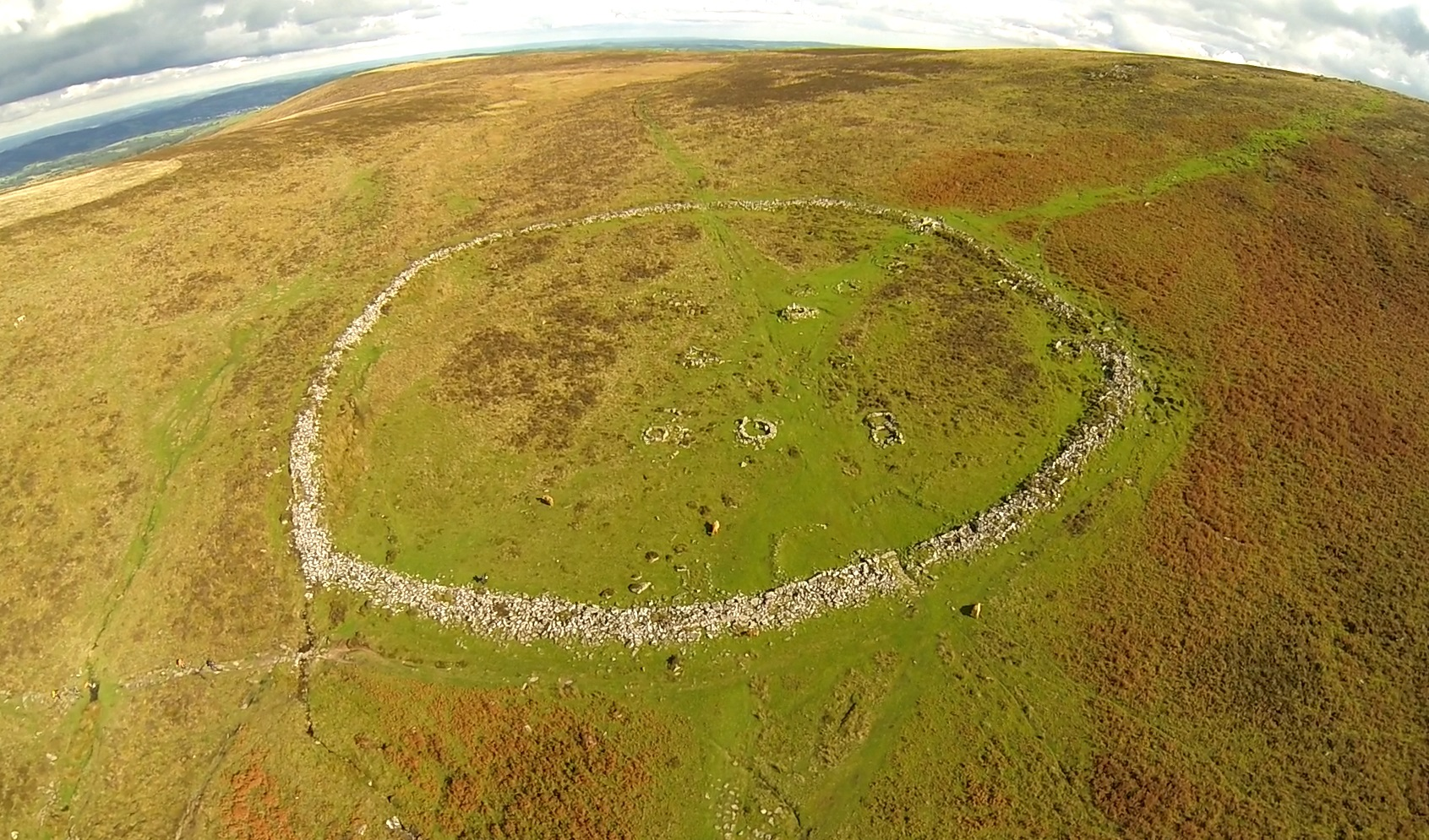 A still taken from UAV video